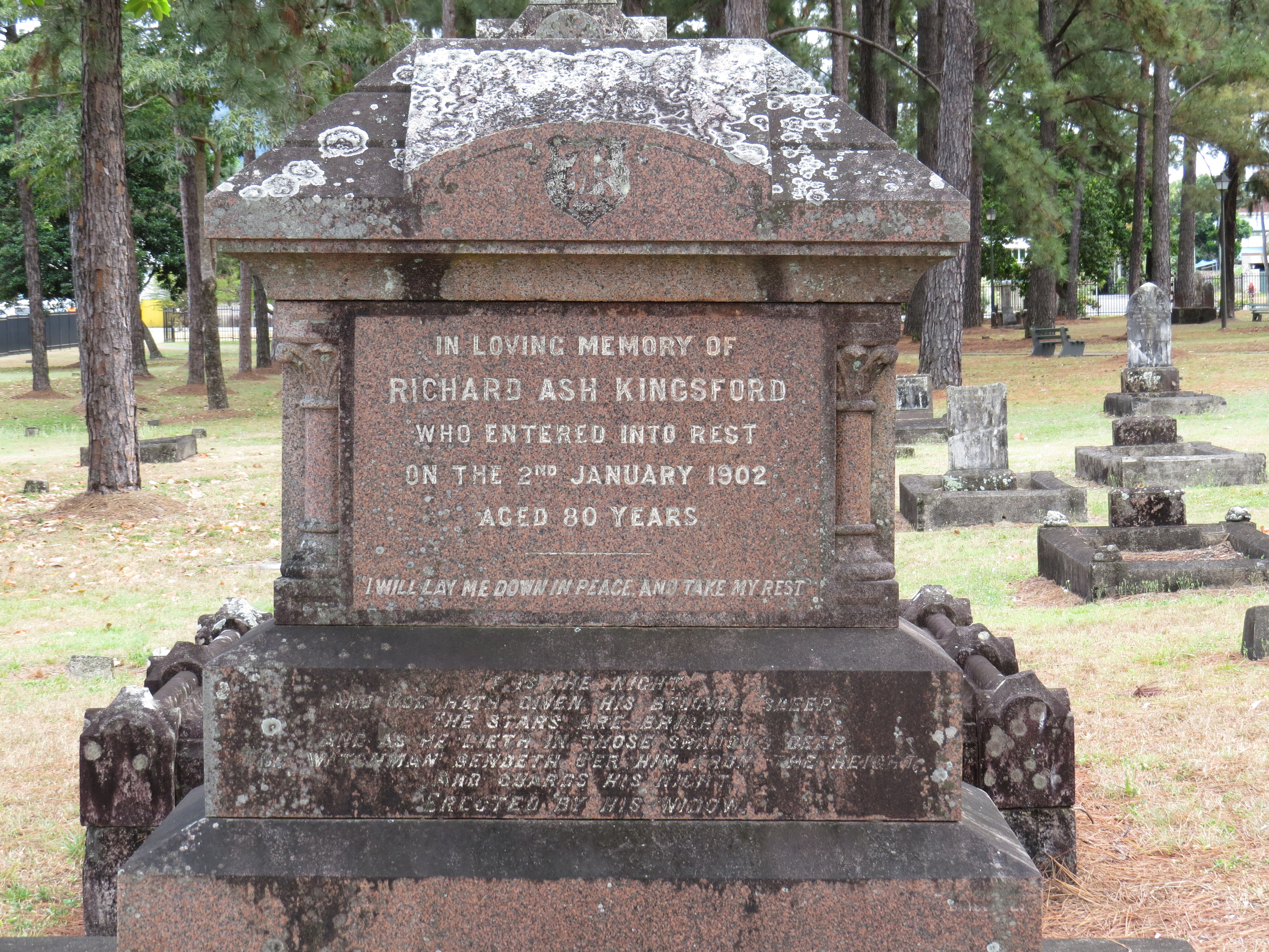 The headstone of the grave of Richard Ash Kingsford, former Mayor of the city of Cairns, Queensland, Australia, and Grandfather of Sir Charles Kingsford Smith. The inscription has been digitally enhanced to improve readability.